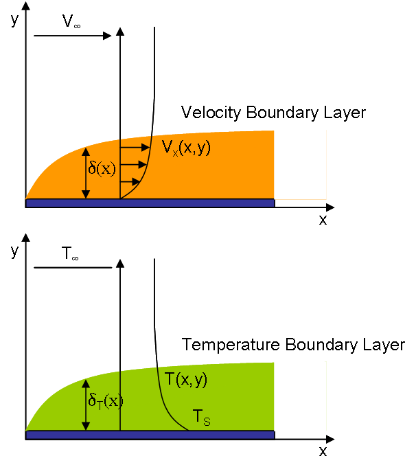 Demonstrates how Velocity and Temperature boundary layers share a common derivation and functional form.